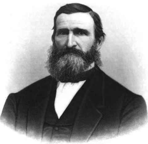 John W. Hazelton, US Representative from New Jersey